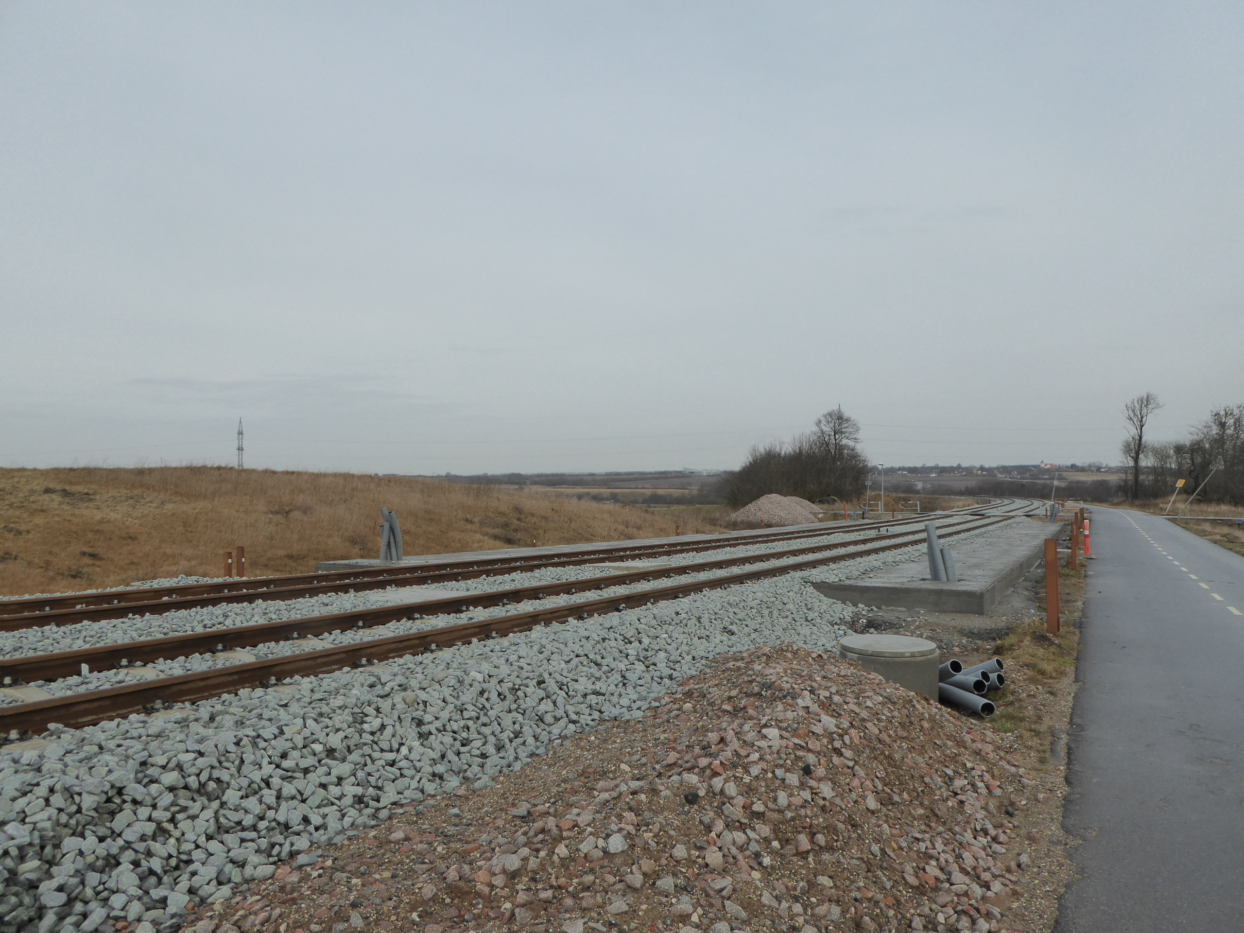 Construction of the light railway Aarhus Letbane north of Aarhus in Denmark. The future tram stop Humlehuse.